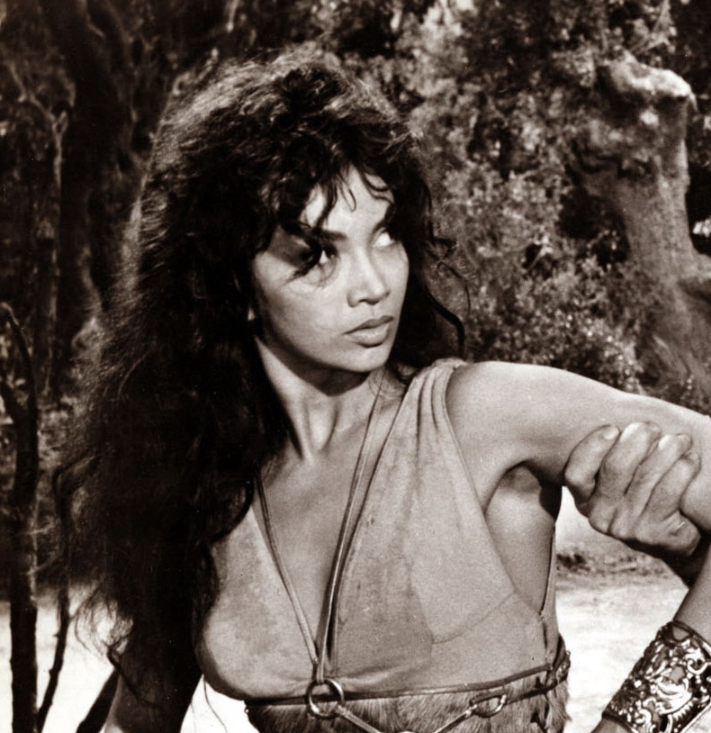 screenshot from the film Morgan il pirata (1960)